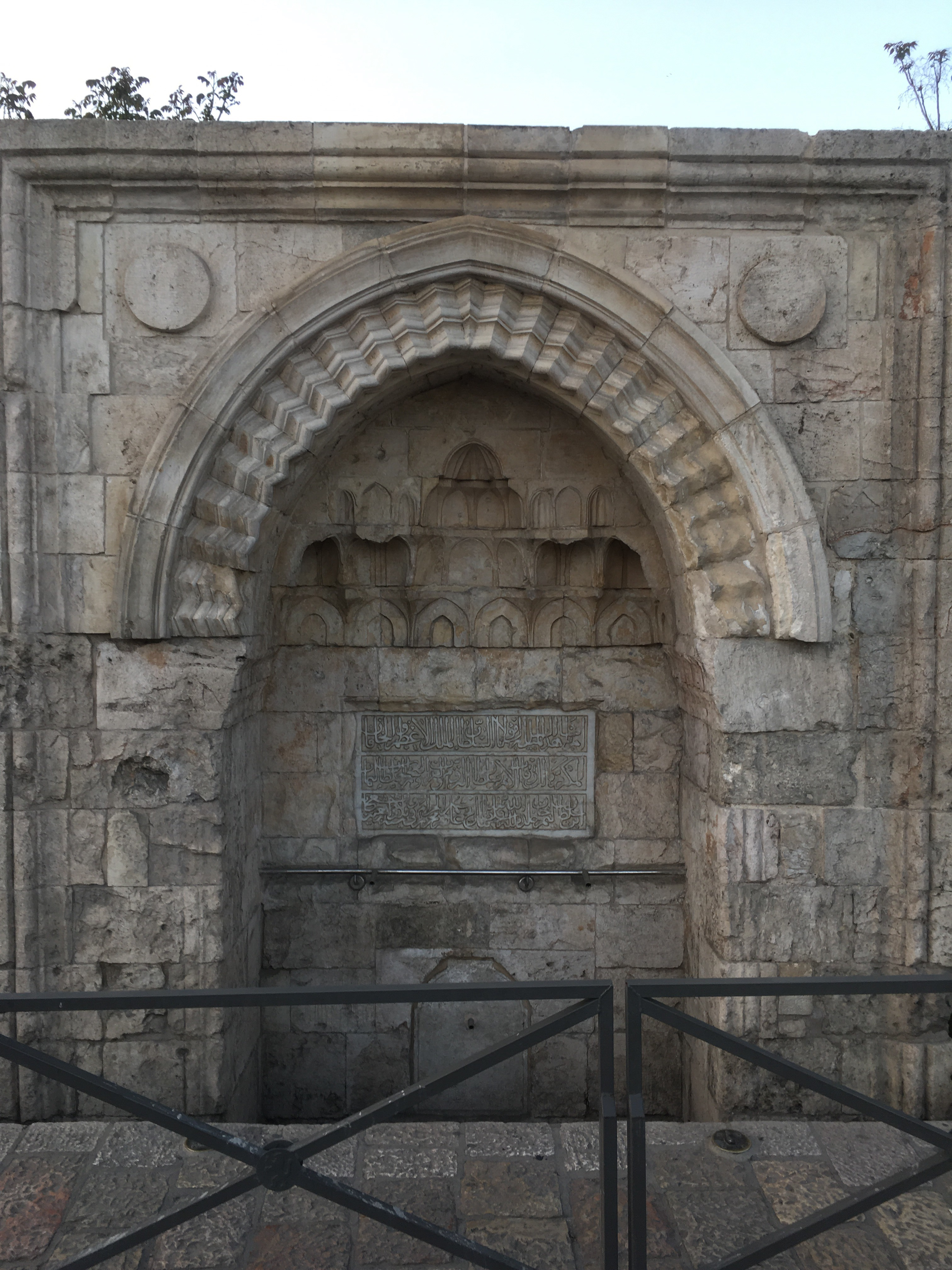 Islamic bridge Jerusalem Early Ottoman Sebil (drinking fountain), on the Hinnom Valley bridge, adjacent to the Sultan's pool. The inscription reads: "Instructed us to build here a drinking place, our lord the Sultan, the great King... Sultan Suleiman son of Sultan Selim Khan, Allah will keep his kingdom and government for eternity".